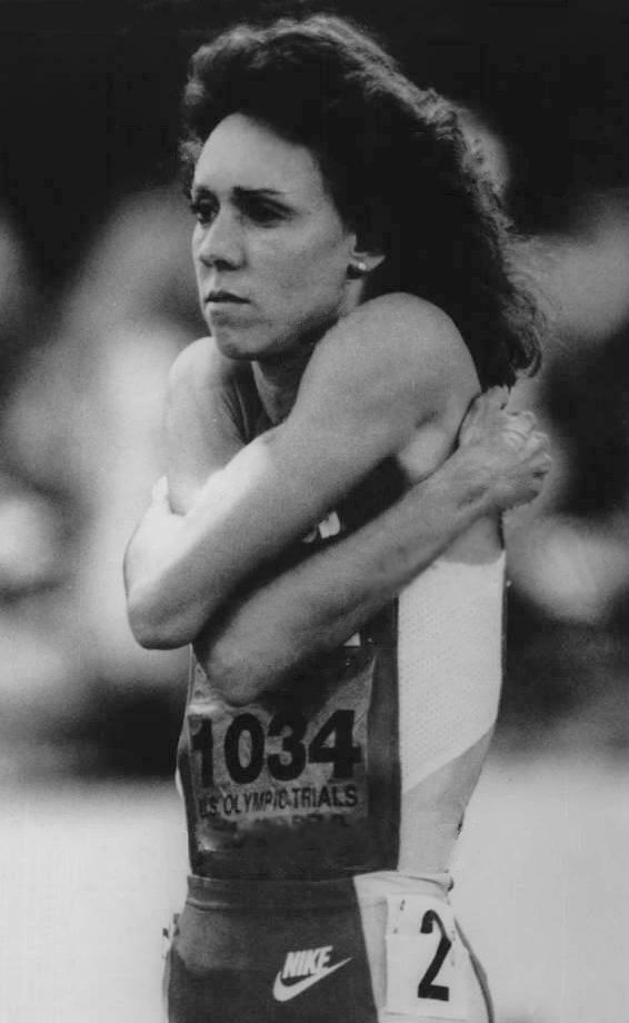 1988 Press Photo Runner Mary Decker Slaney at Olympic Trials in Indianapolis